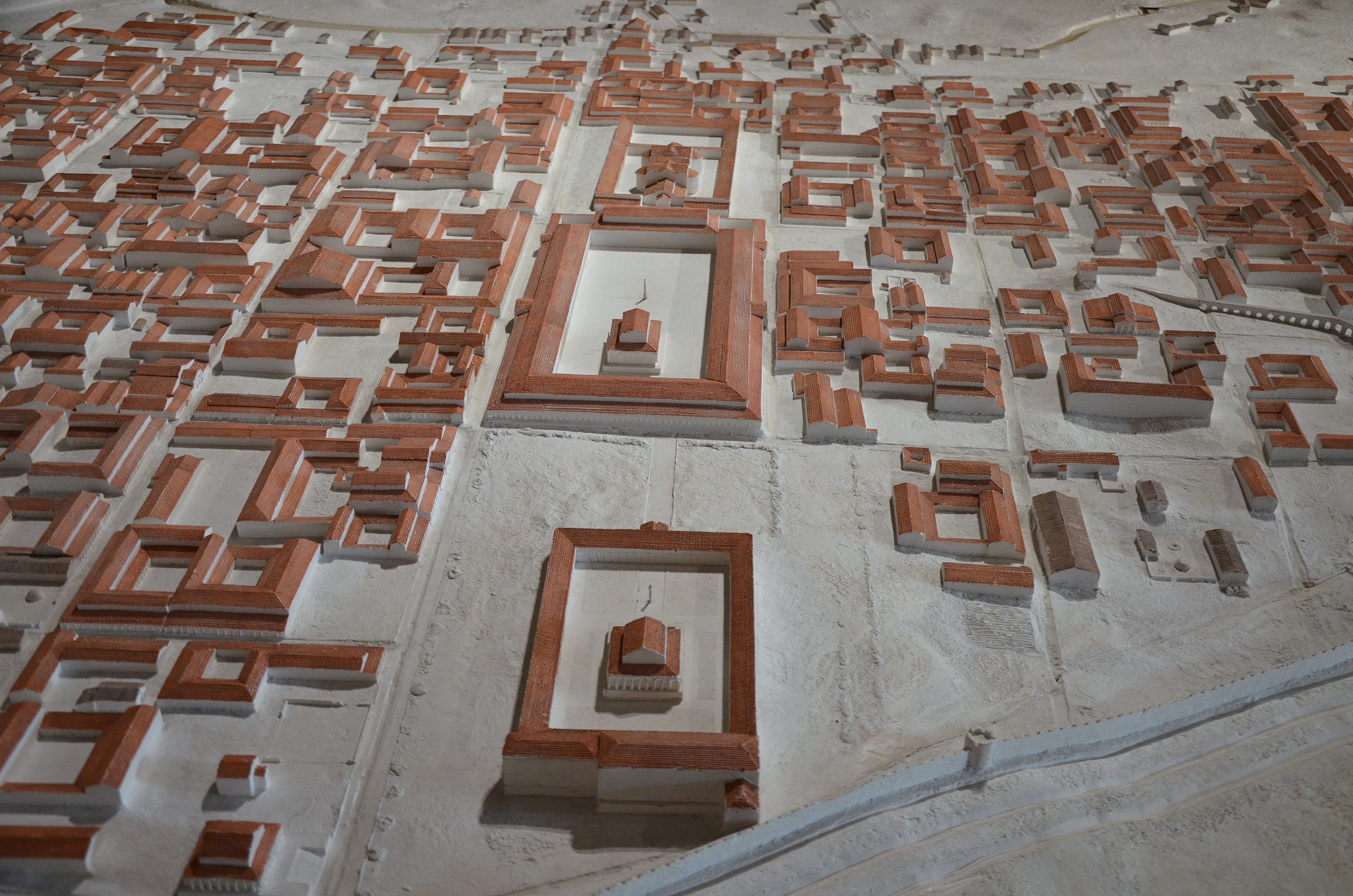 Detail of scale model of Atuatuca Tungrorum (Tongeren) around 150 AD, showing in the middle the Temple, the Forum and the bathing complex. Collection of Gallo-Romeins Museum in Tongeren, Belgium.